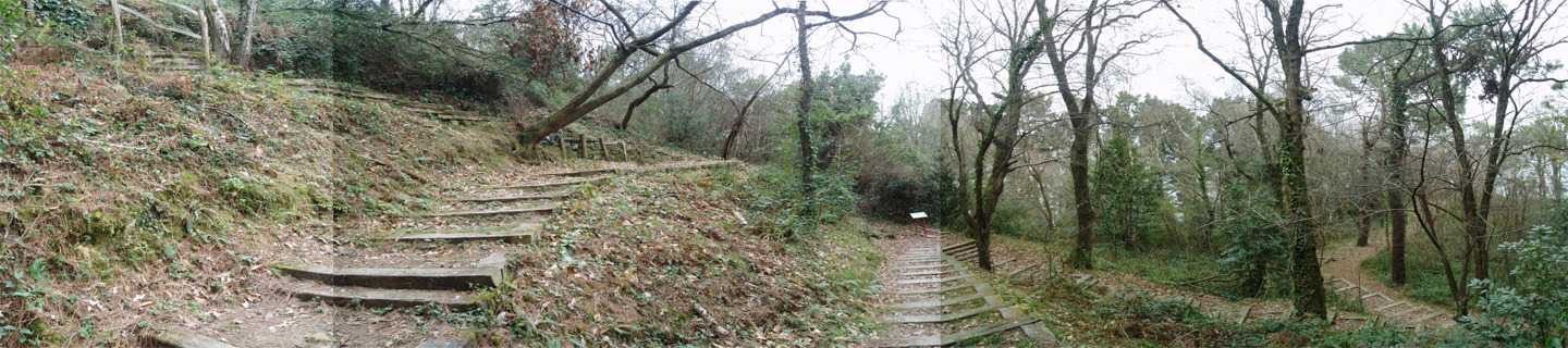 Panoramic view of Muntxio park in Zarautz (Gipuzkoa).